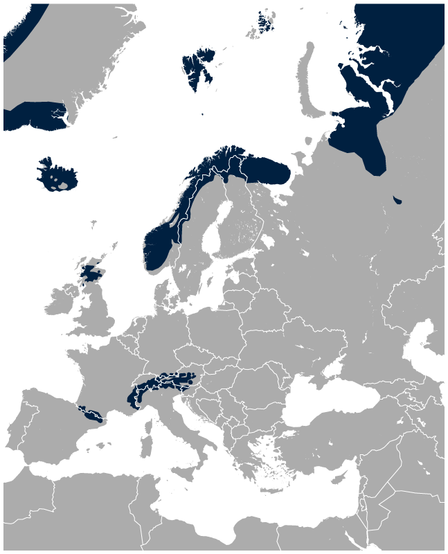 Geographical distribution of the Rock Ptarmigan Lagopus muta in Europe. The map was created using the Generic Mapping Tools, GMT, version 5.1.2.